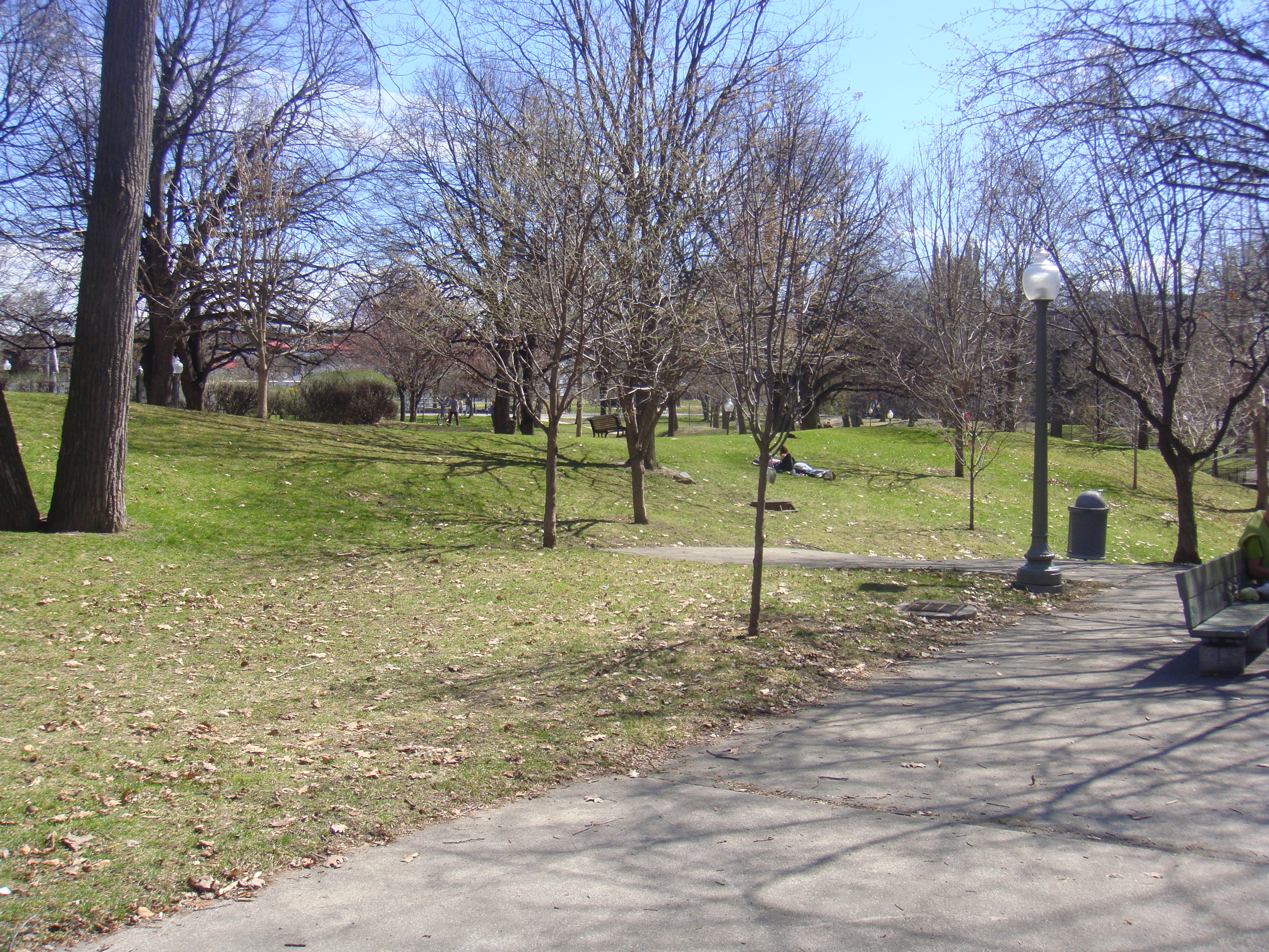 Westmount Park